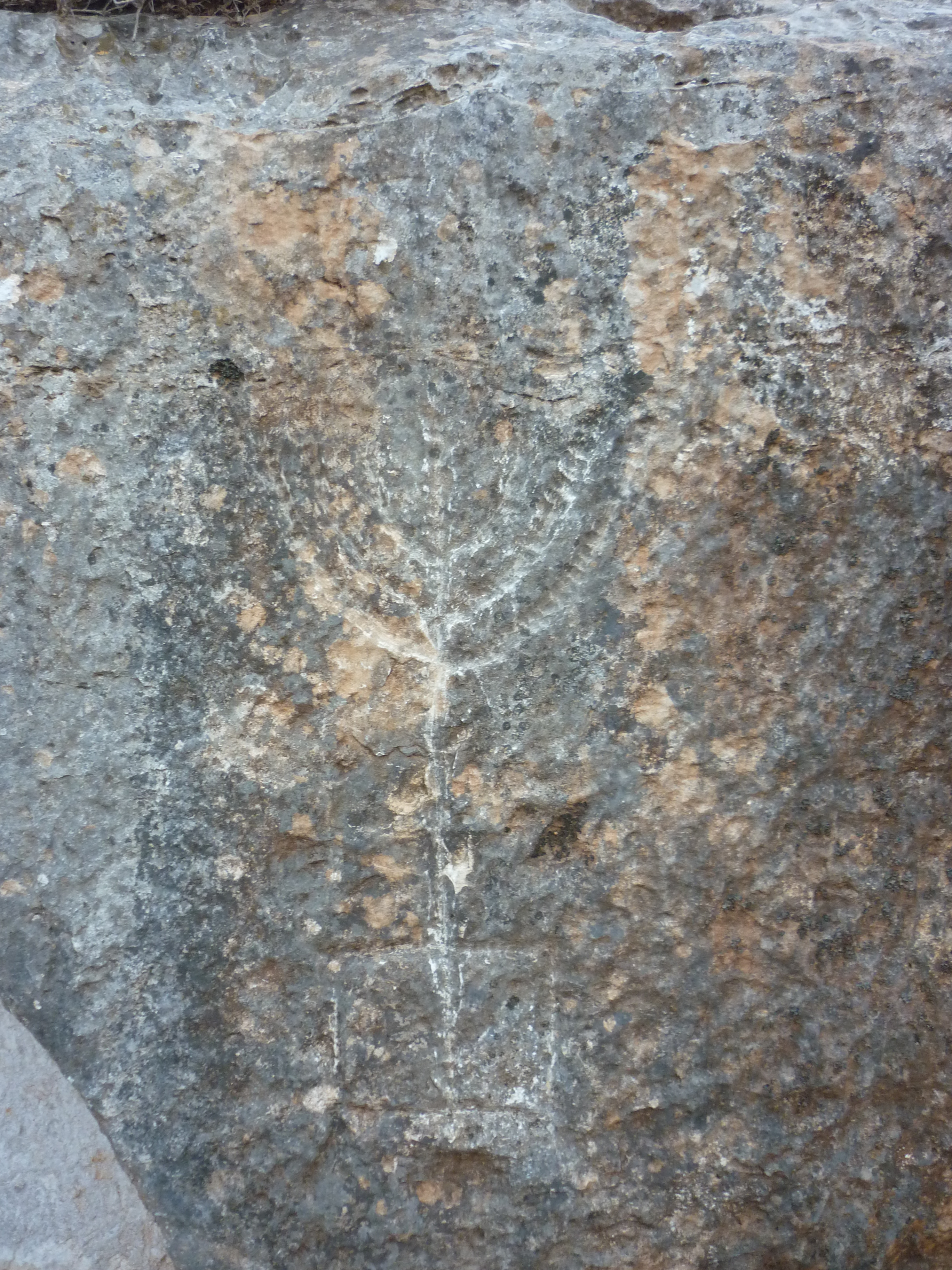 It seems like modern white-chalk markings on the original carving.